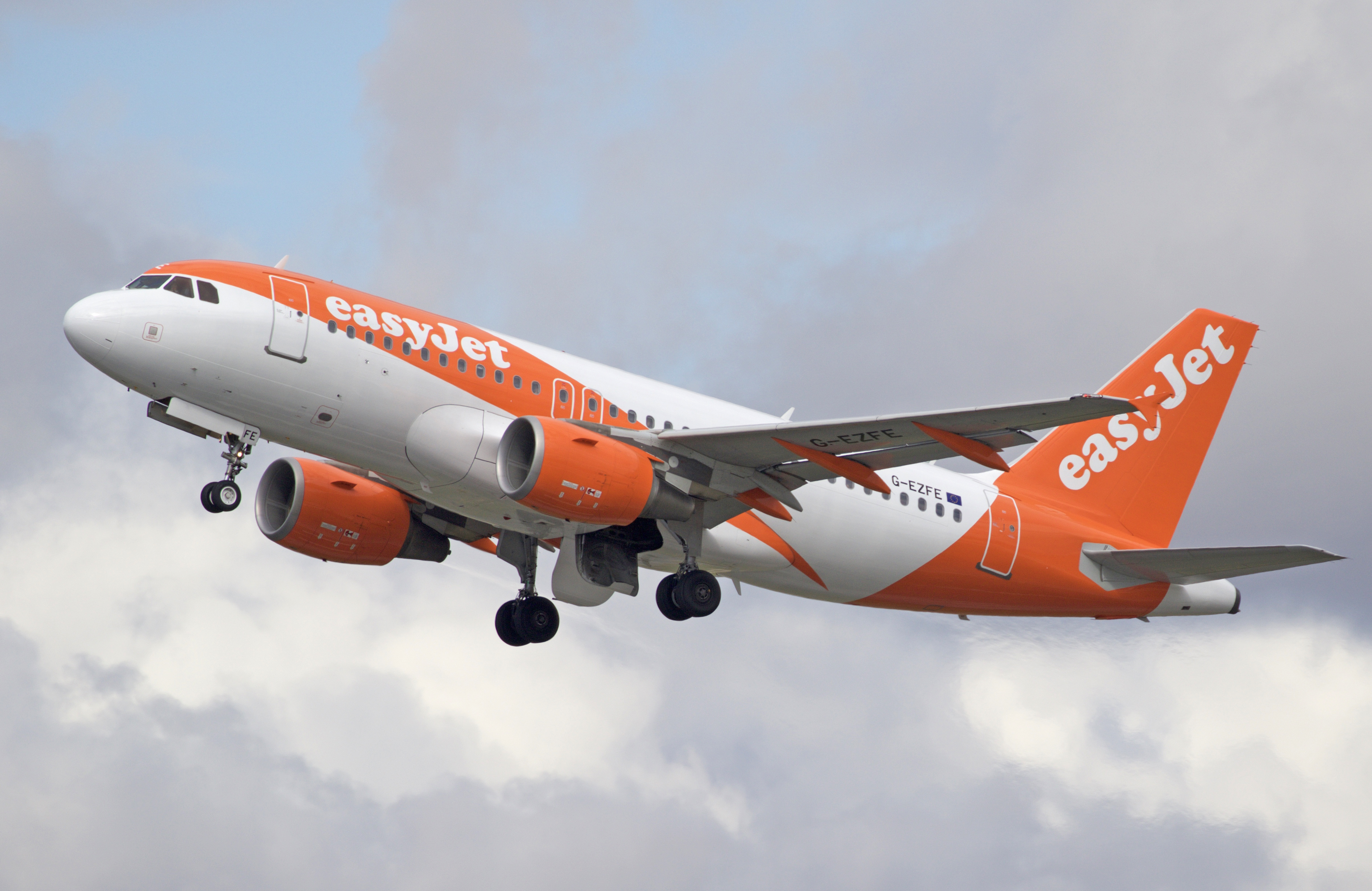 Easy Jet Airbus A320 G-EZFE